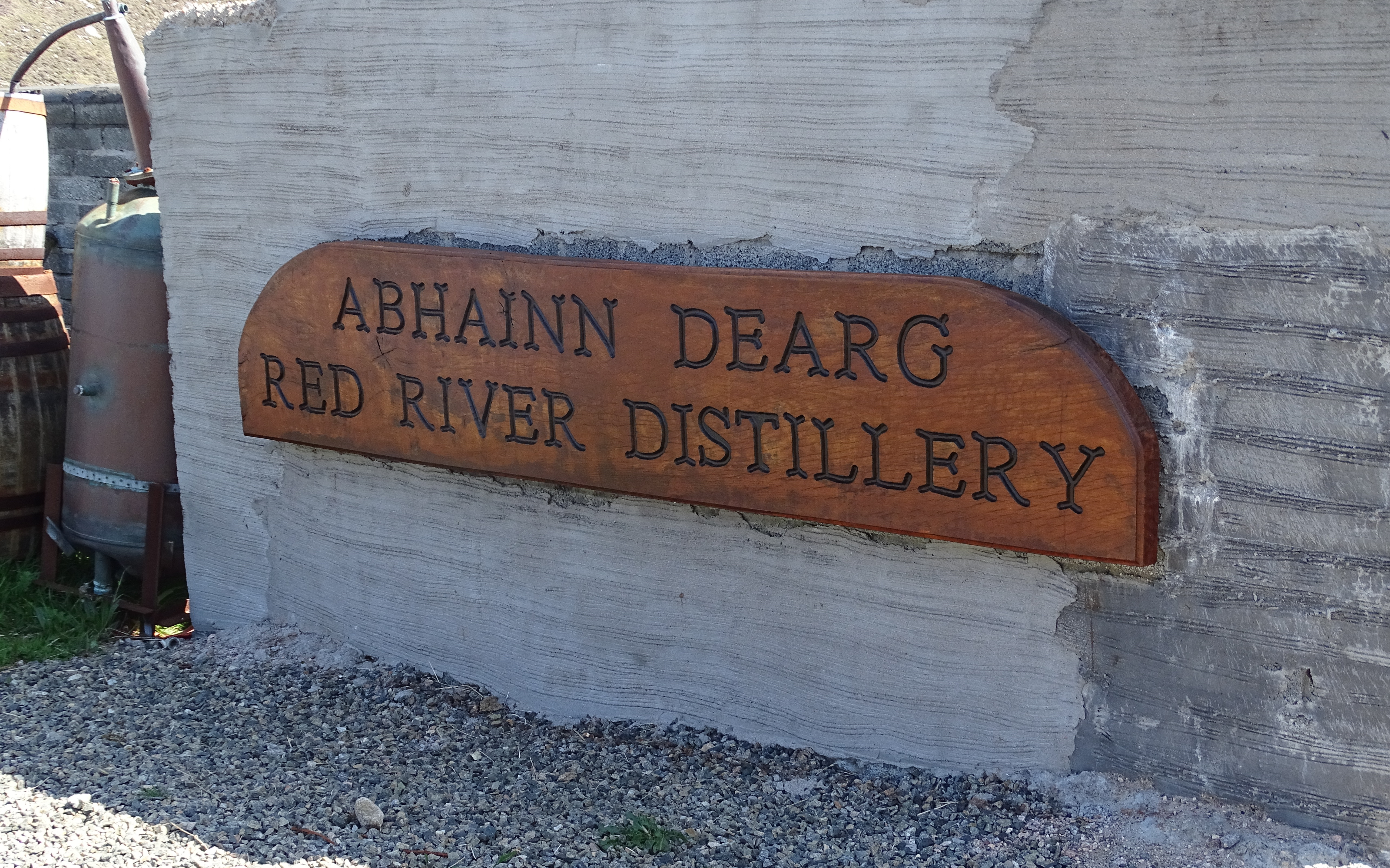 Abhainn Dearg Red River Distillery, Uig, Scotland